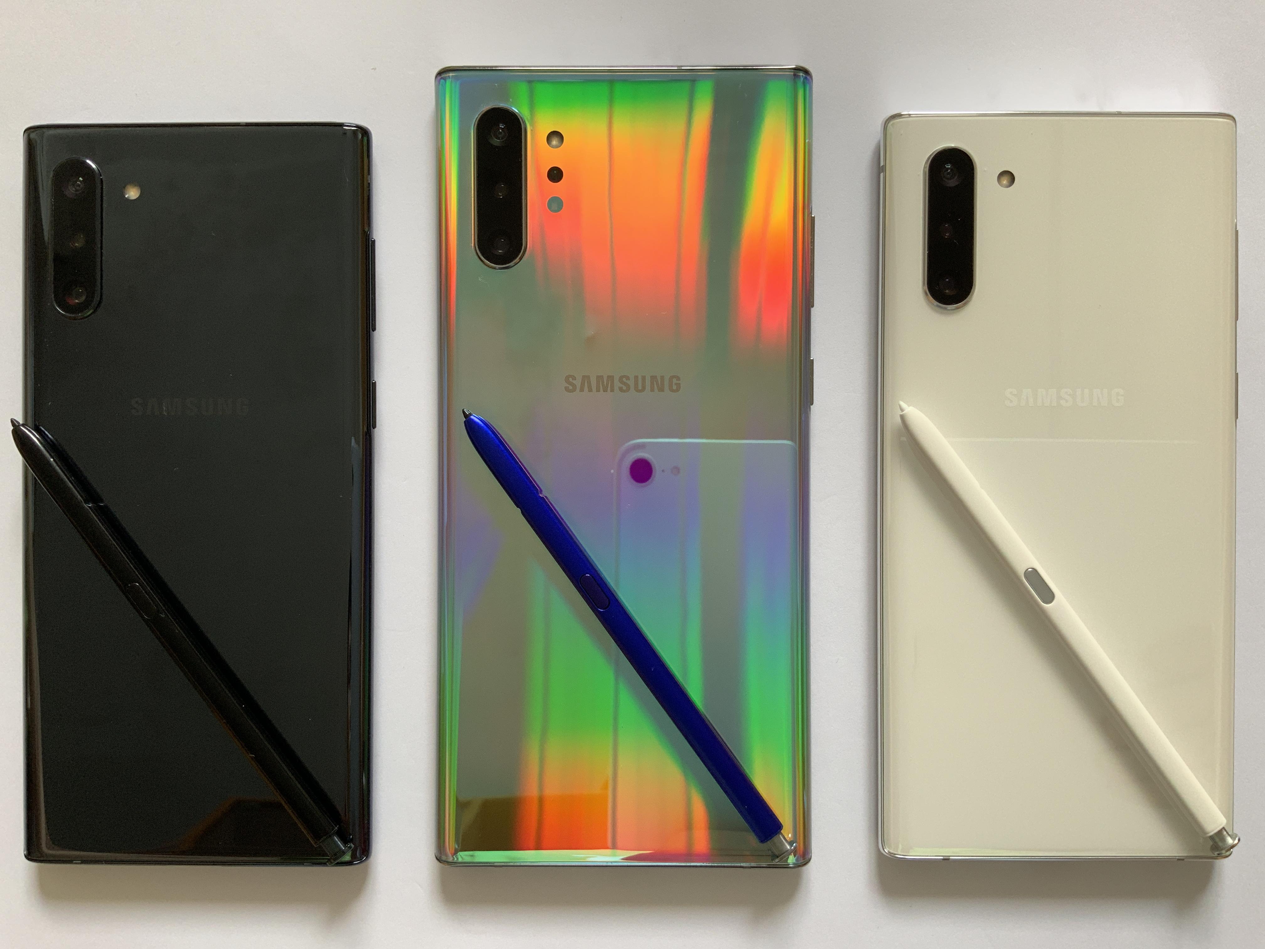 SAMSUNG Galaxy Note10 SAMSUNG Galaxy Note10 5G SAMSUNG Galaxy Note10+ SAMSUNG Galaxy Note10+ 5G